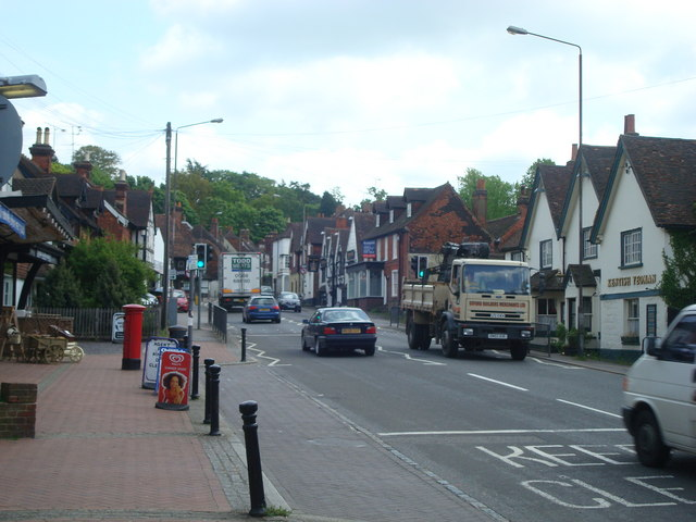 High Street (A25), Seal